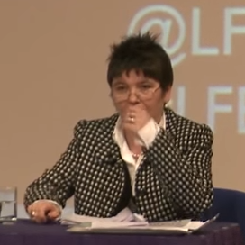 A debate with Claire Fox, from BBC Radio 4's Moral Maze; Michael Nazir-Ali, retired Bishop of Rochester; and Wes Streeting, head of education at Stonewall. (Chair: Louise Thomas.)